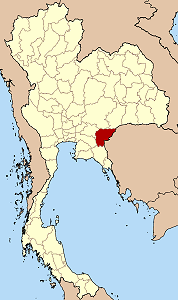 Map of Thailand highlighting Sa Kaeo province